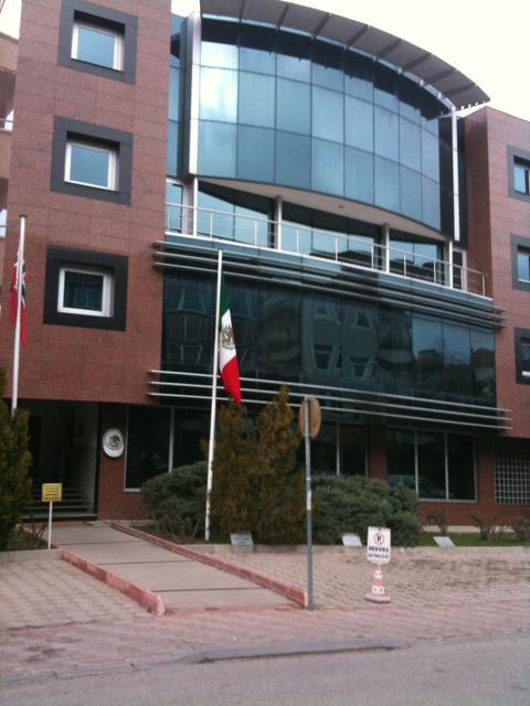 Embassy of Mexico and Norway in Ankara, Turkey